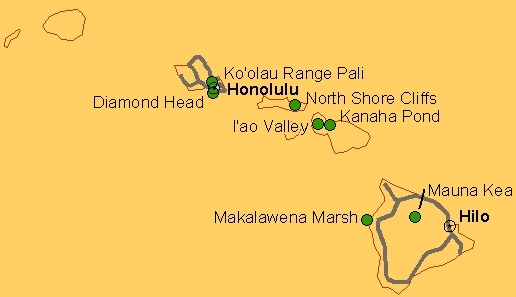 Map of National Natural Landmarks in the state of Hawai'i. From the U.S. National Park Service